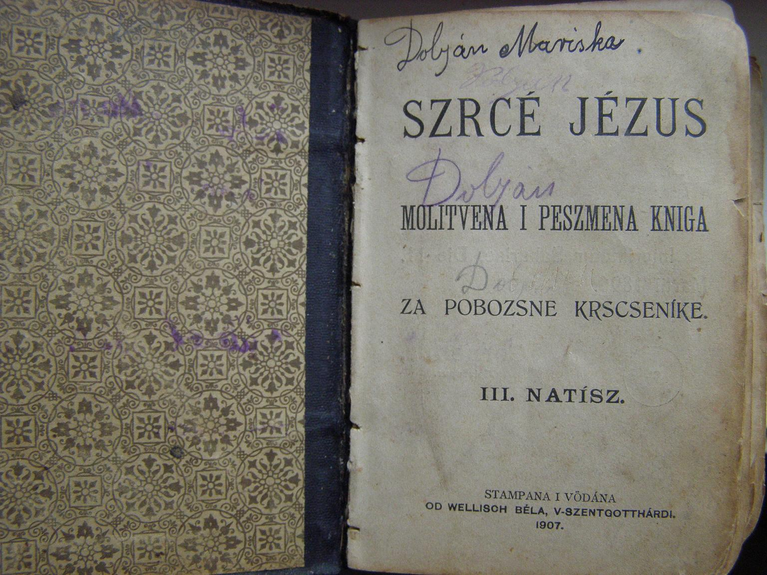 Szrcé Jézus (Cardiac of Jesus), by Antal Stevanecz (1907)